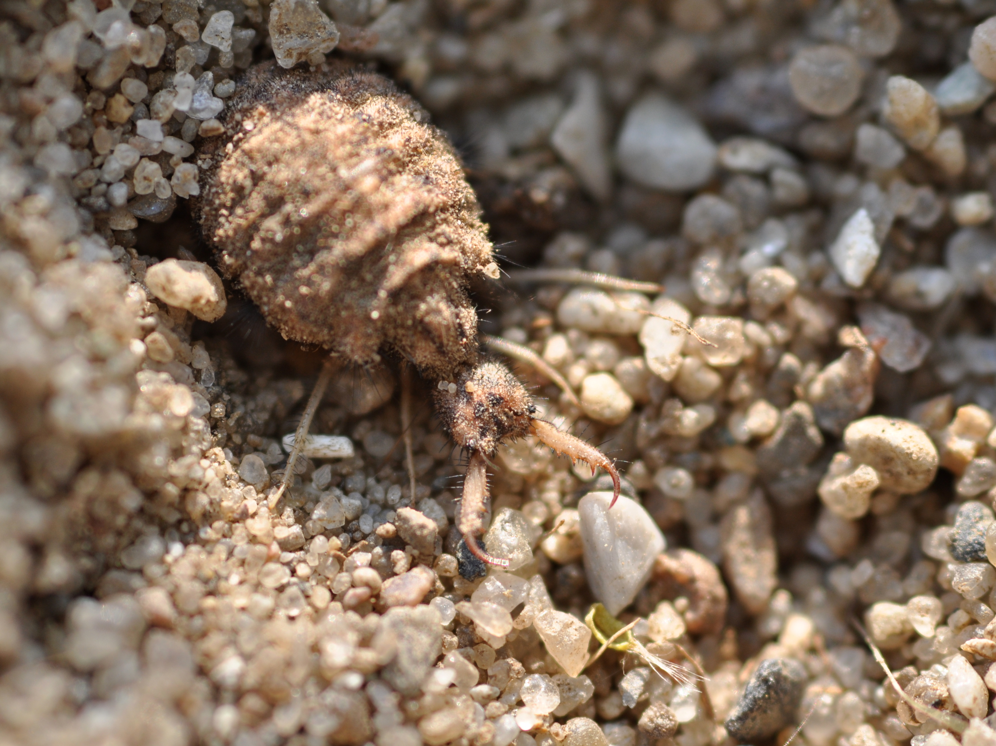 Antlion probably Myrmeleon formicarius in Kirchwerder, Hamburg.